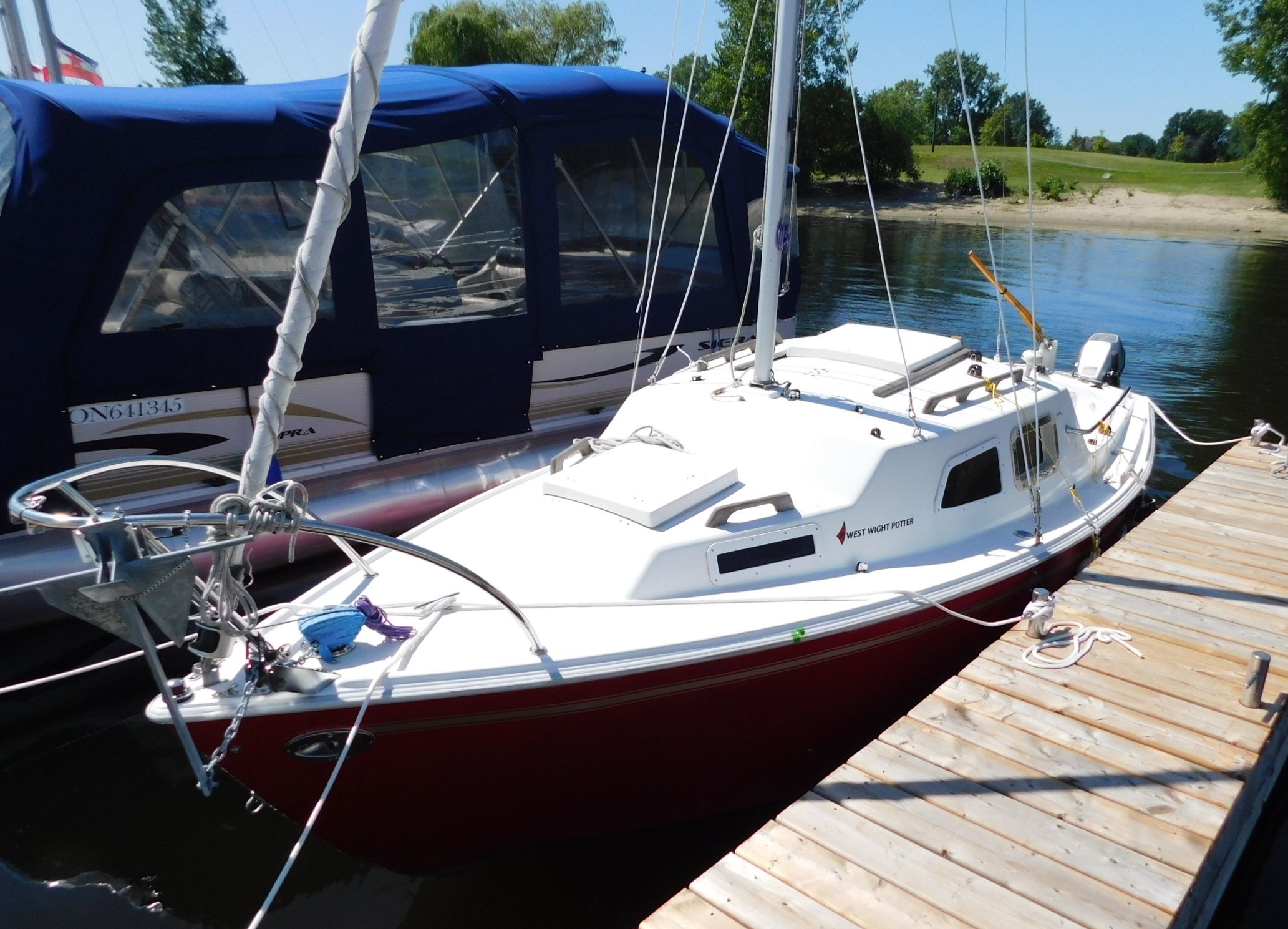 A West Wight Potter 19 sailboat named Time Bandit.